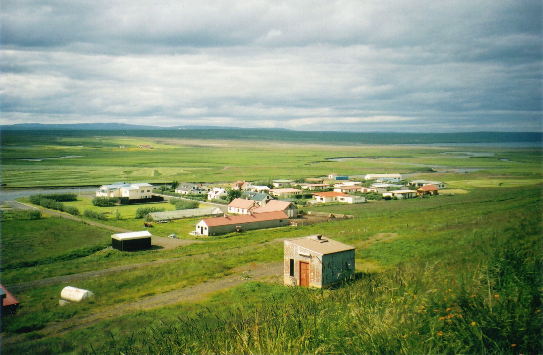 The village Laugarbakki in Iceland, that's part of the town Hvammstangi as seen from Reykir south-east of the village. In the background there is the river Miðfjarðará and on the right hand side the fjord Miðfjörður.